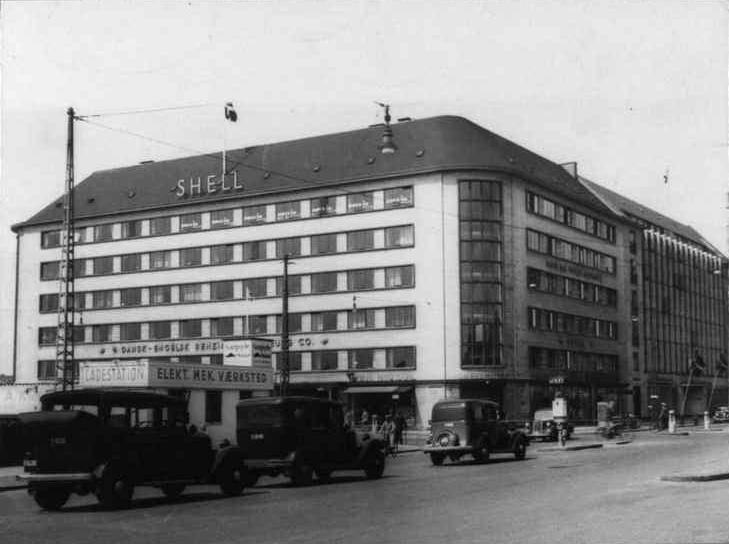 Shellhuset, headquarters of Dansk Shell Co. A/S. During the German occupation of Denmark the building was confiscated by the Gestapo. The building was successfully bombed by the RAF on March 21, 1945.